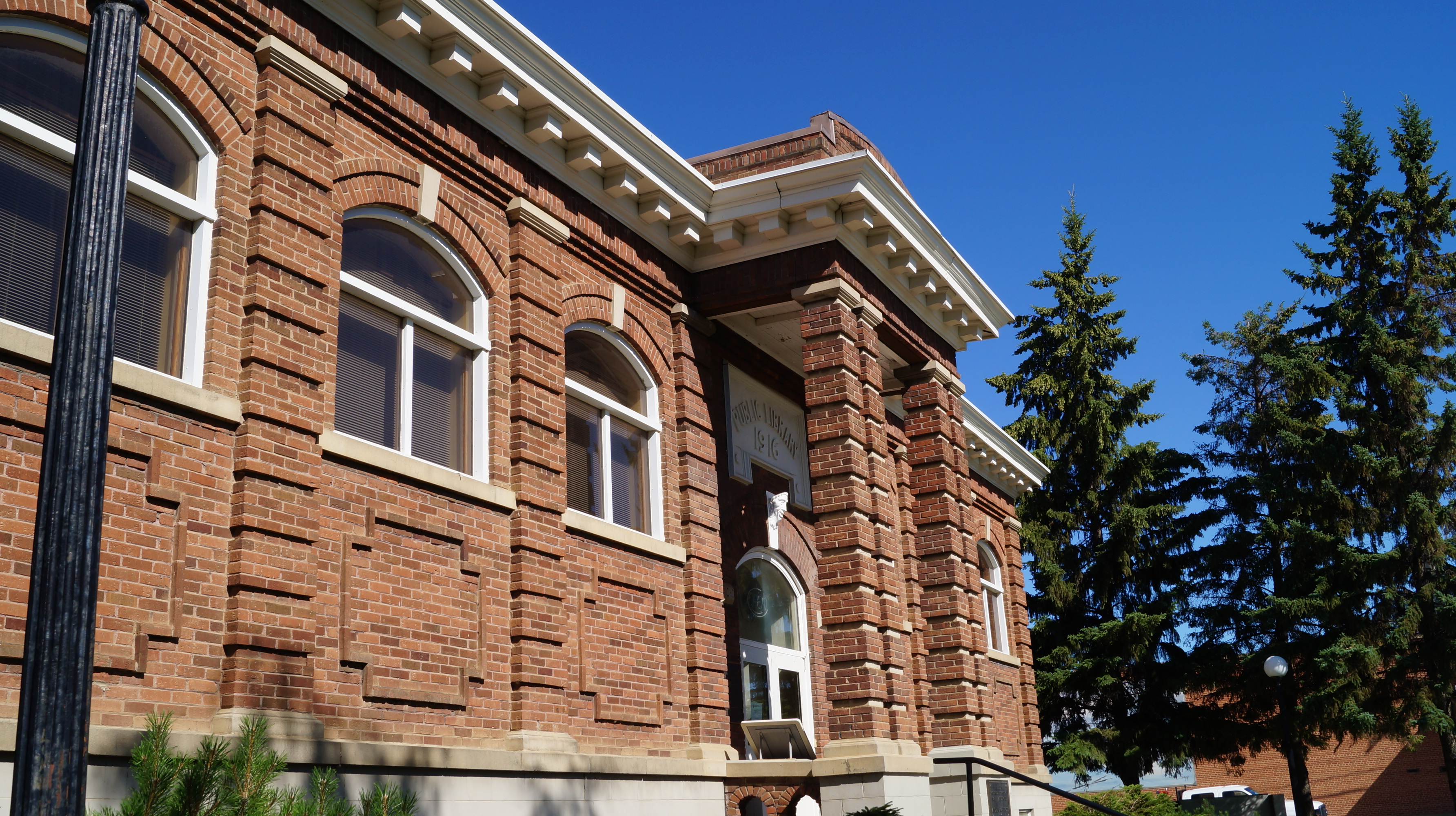 Side view of the Allen Sapp Gallery in North Battleford, Saskatchewan.